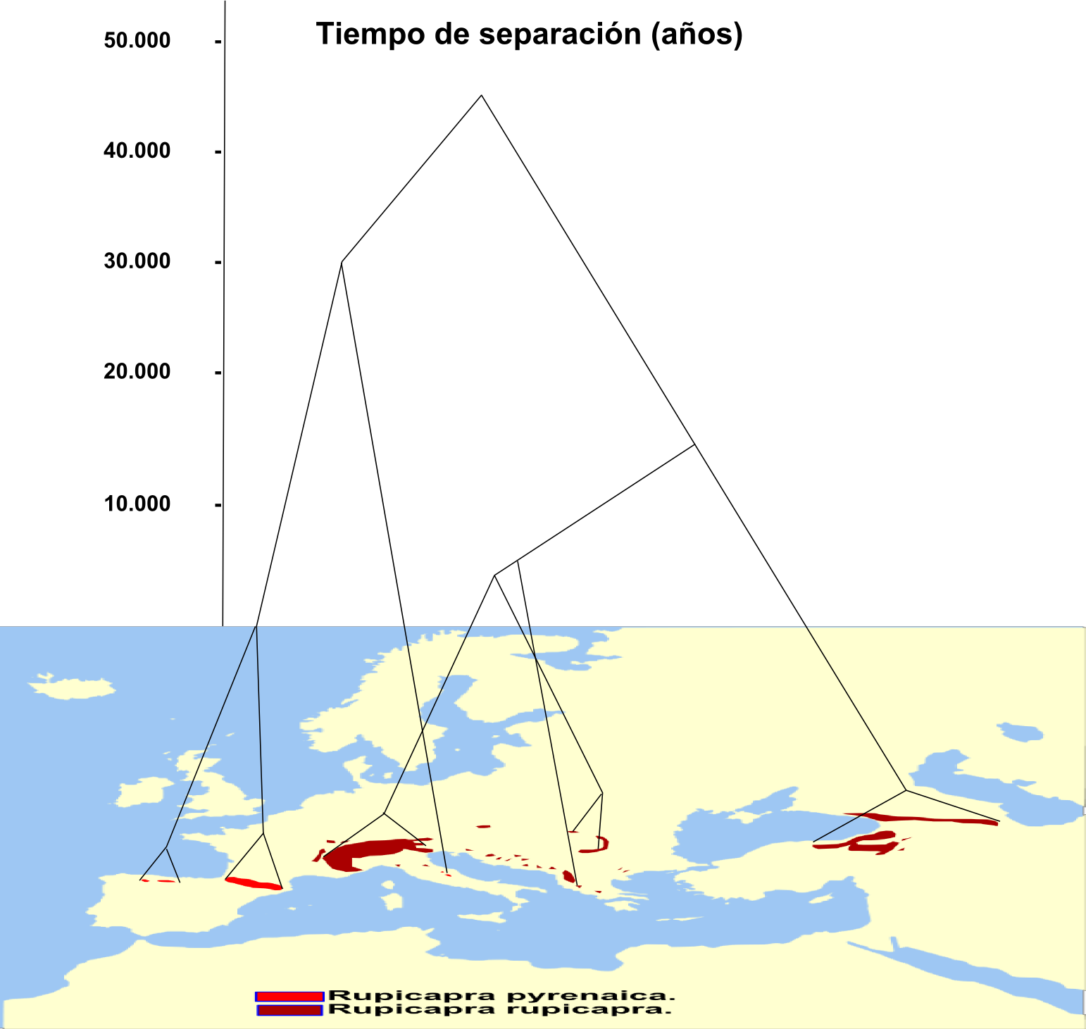 Phylogeography of genus Rupicapra